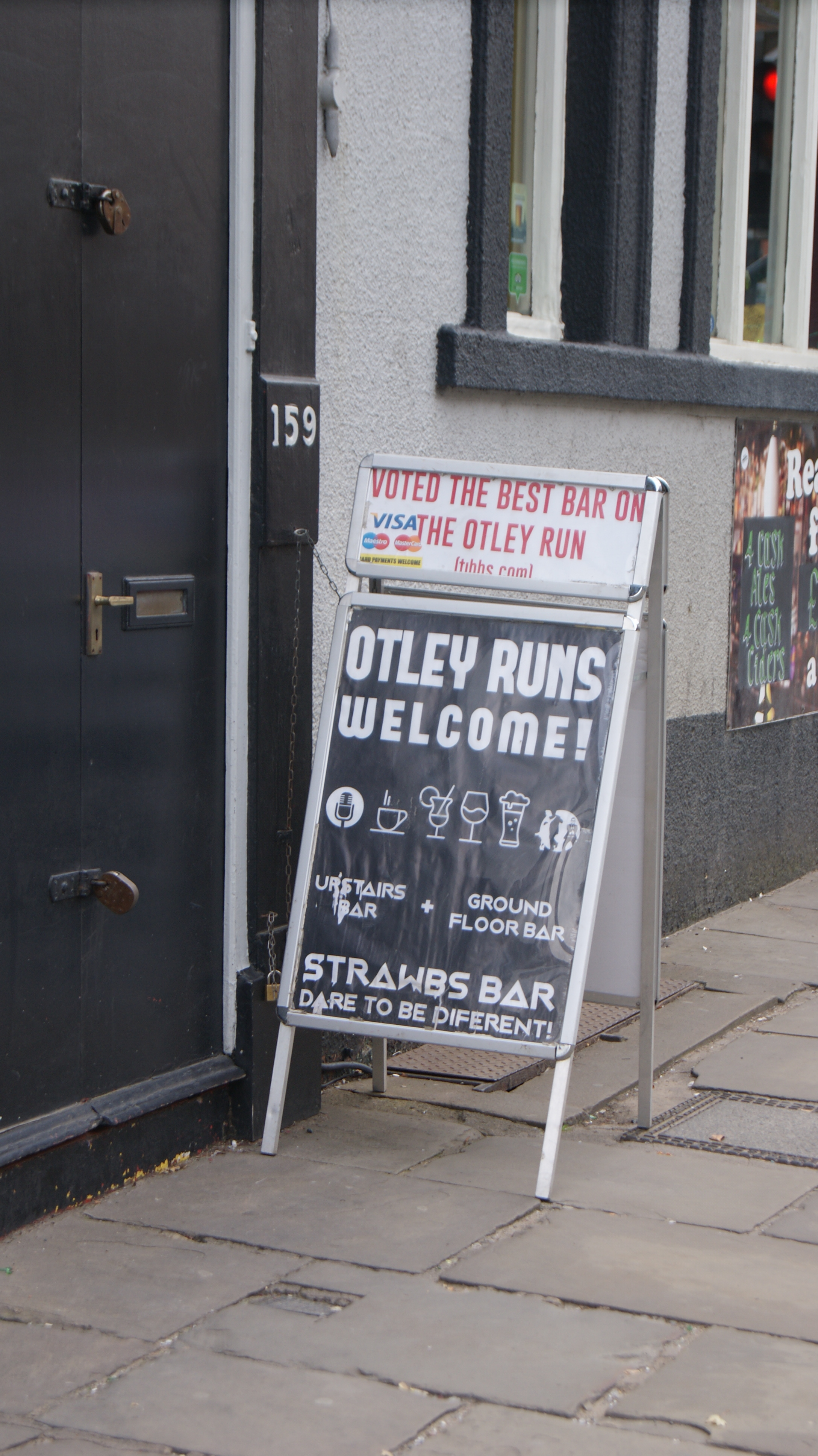 Woodhouse Lane, Leeds, West Yorkshire. Taken on the afternoon of Friday the 25th of August 2017.